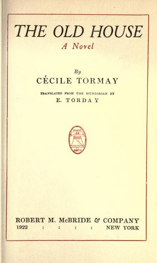 Title page of The Old House, a novel by Cécile Tormay.